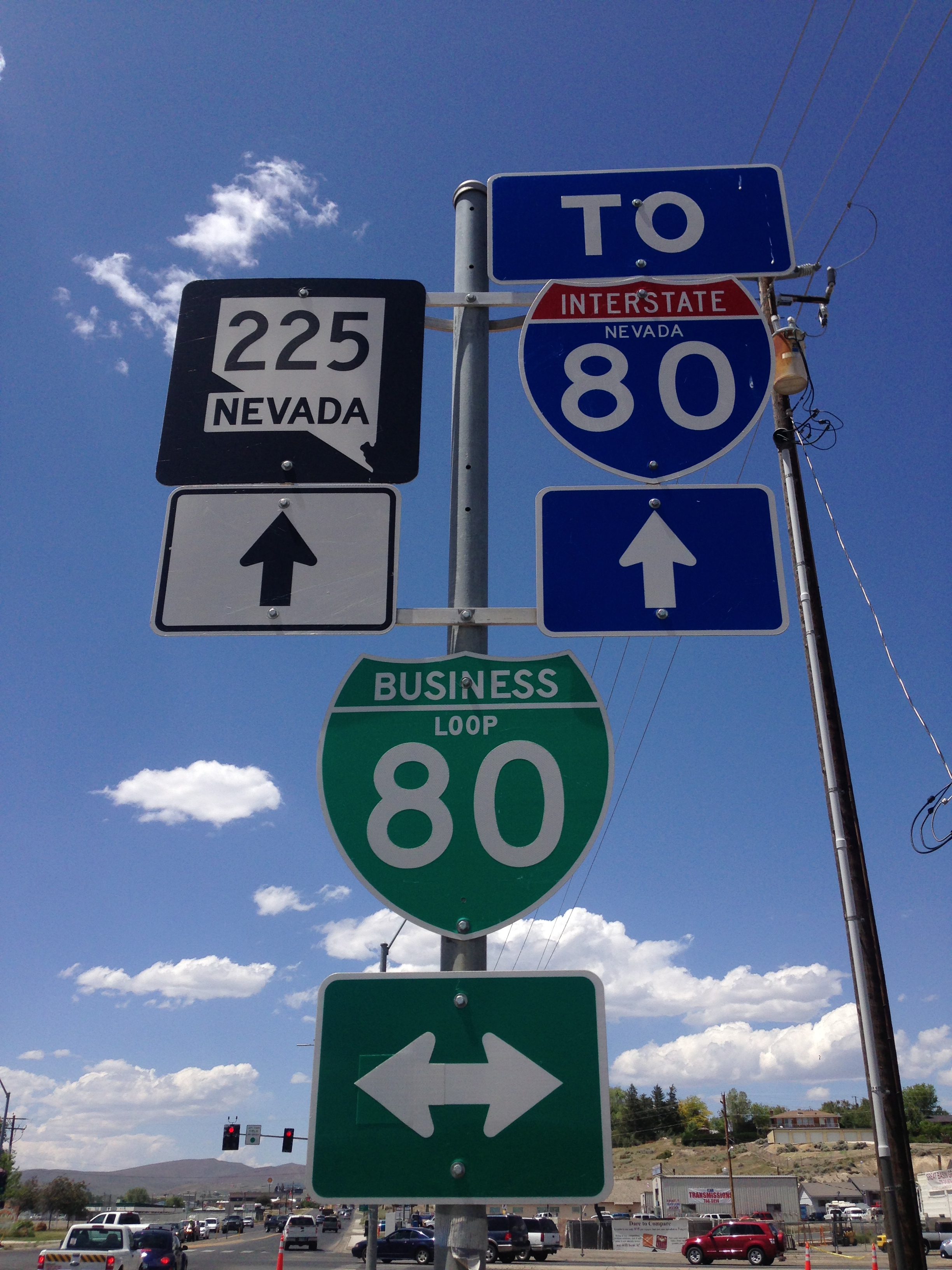 Signs at the north end of Silver Street looking towards Mountain City Highway (Nevada State Route 225) at Idaho Street (Nevada State Route 535) in Elko, Nevada